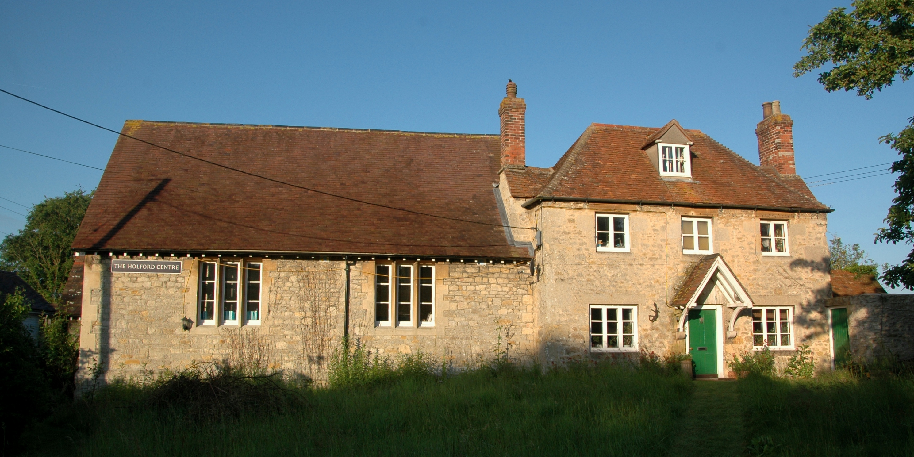 The Holford Centre, Stanton St John, Oxfordshire: view from the east, showing the 18th-century teacher's house (right) and 1874 schoolrooms (left)